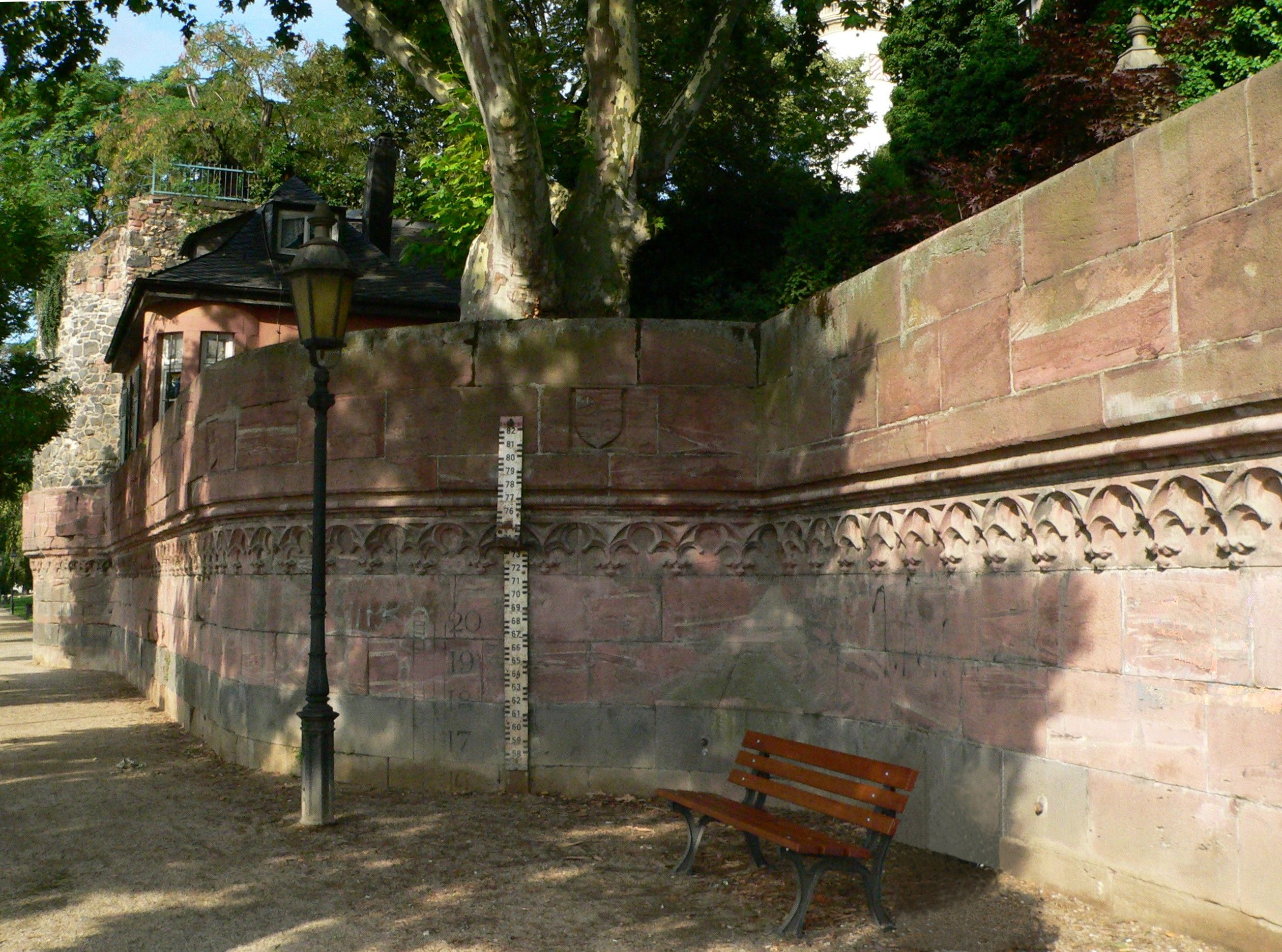 Gothic defensive wall of Frankfurt-Höchst with Diether von Isenburg's coa and the ferryman's house